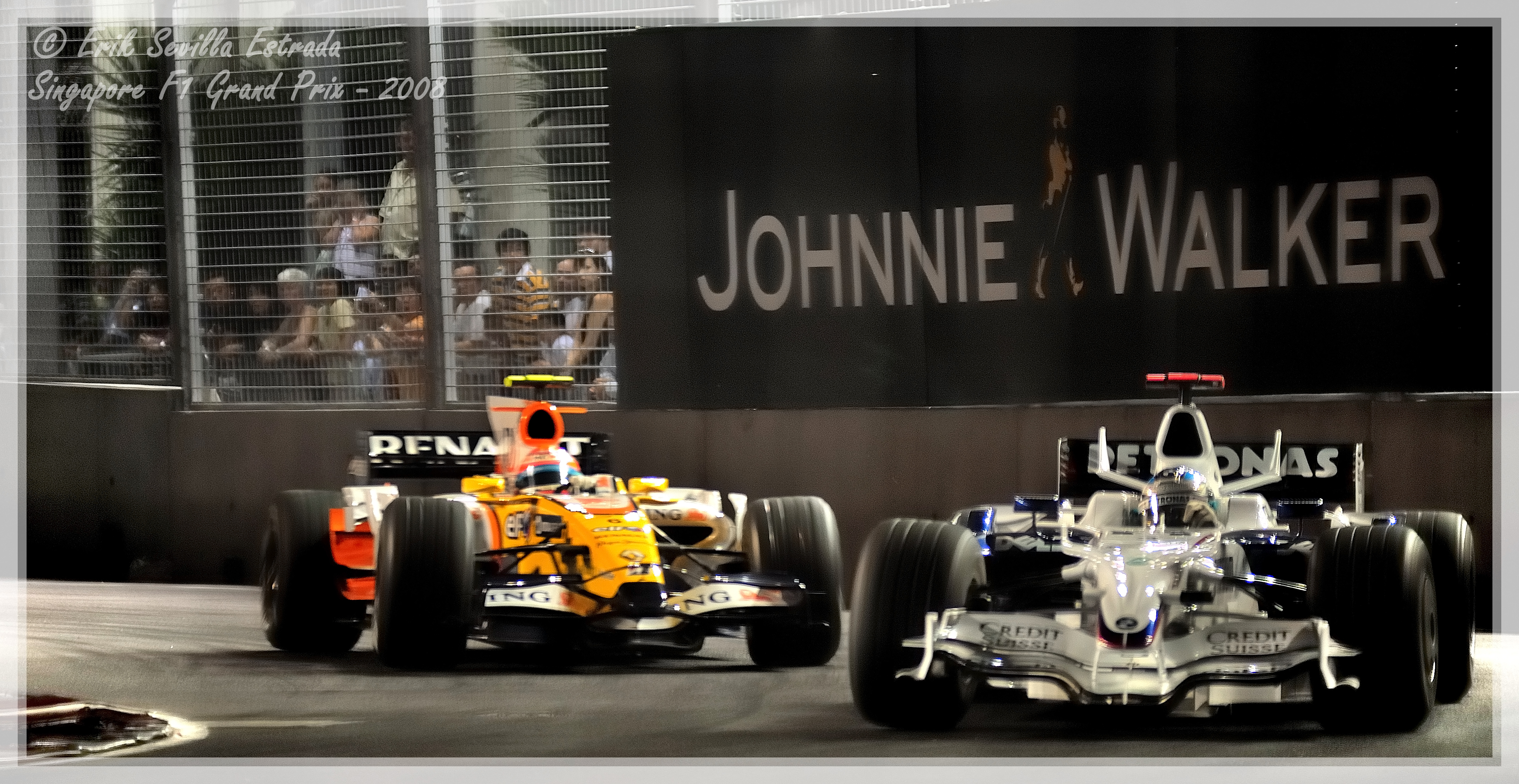 Nick Heidfeld (BMW) and Nelsinho Piquet (Renault) Location : Turn 10